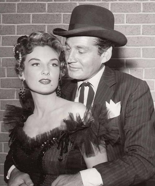 Allison Hayes & Gene Barry in the TV series Bat Masterson, episode Dude's Folly - publicity still (cropped)